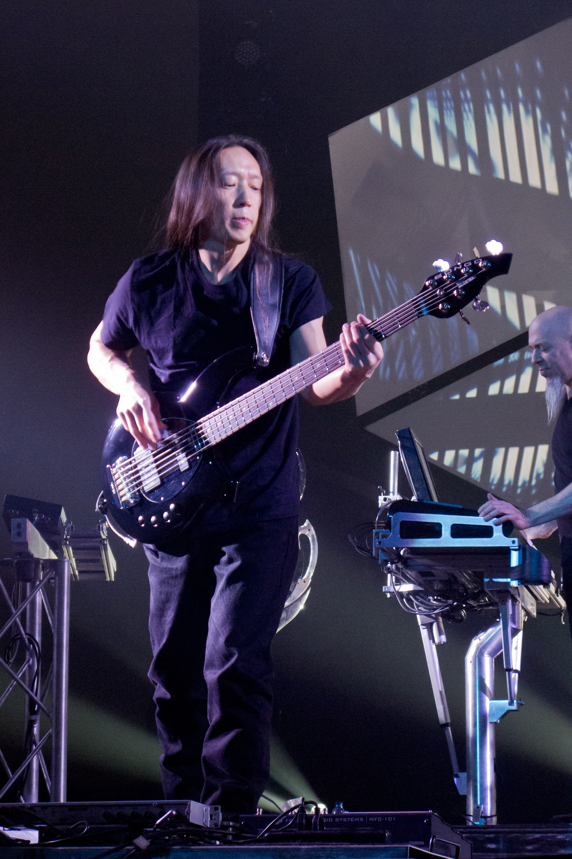 Dream Theater's bassist, John Myung, live in 2012.